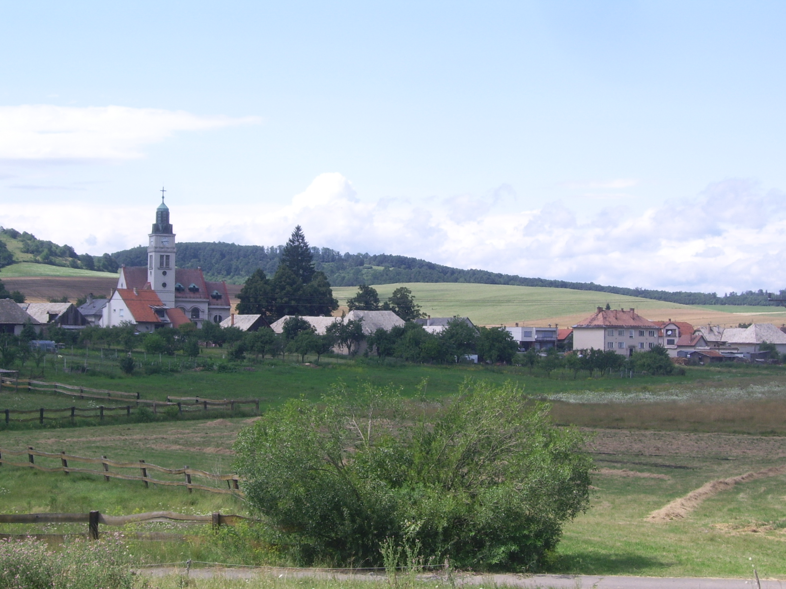 Lutheran church of Babiná, Slovakia